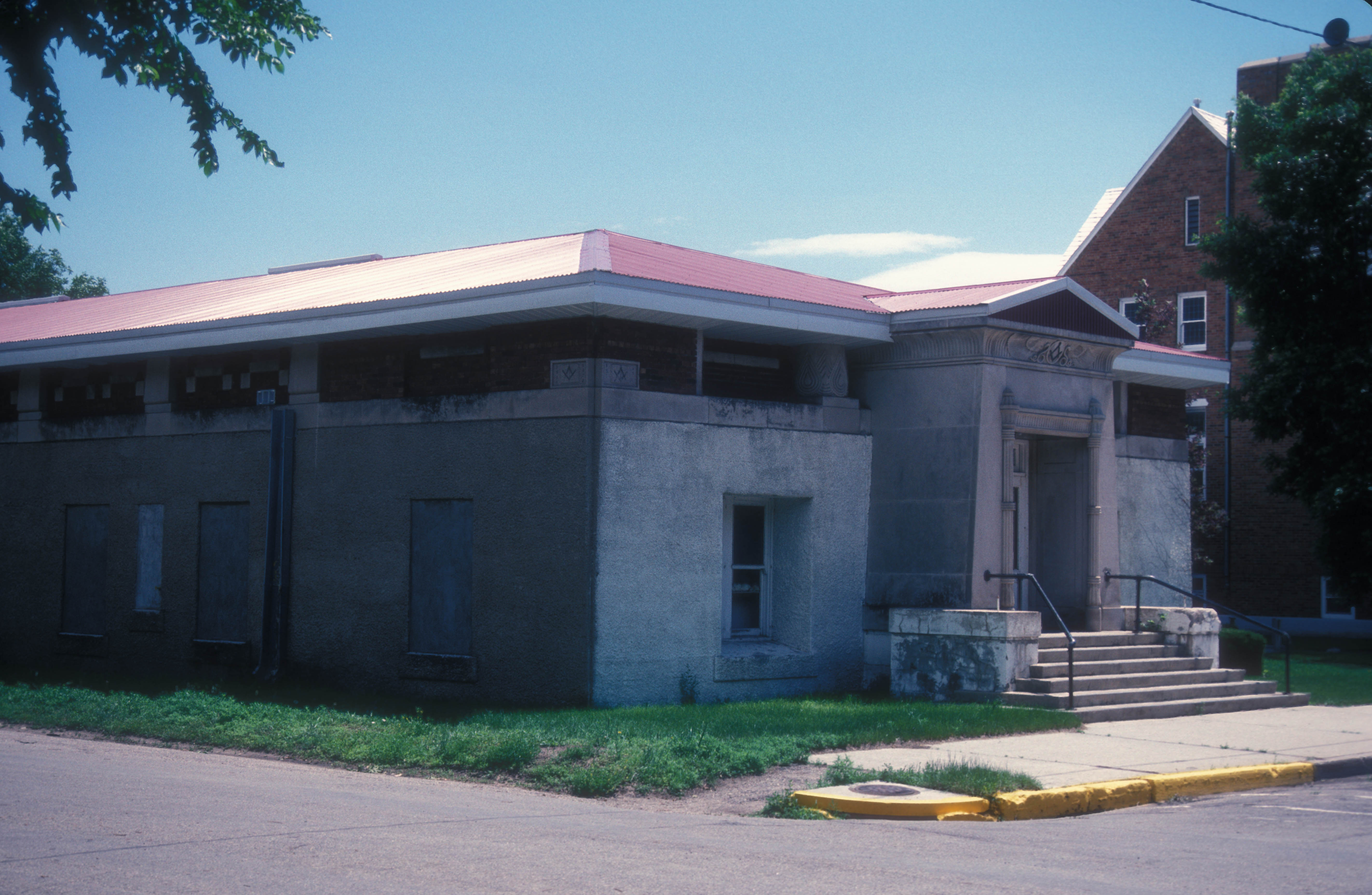 BUILT IN 1923